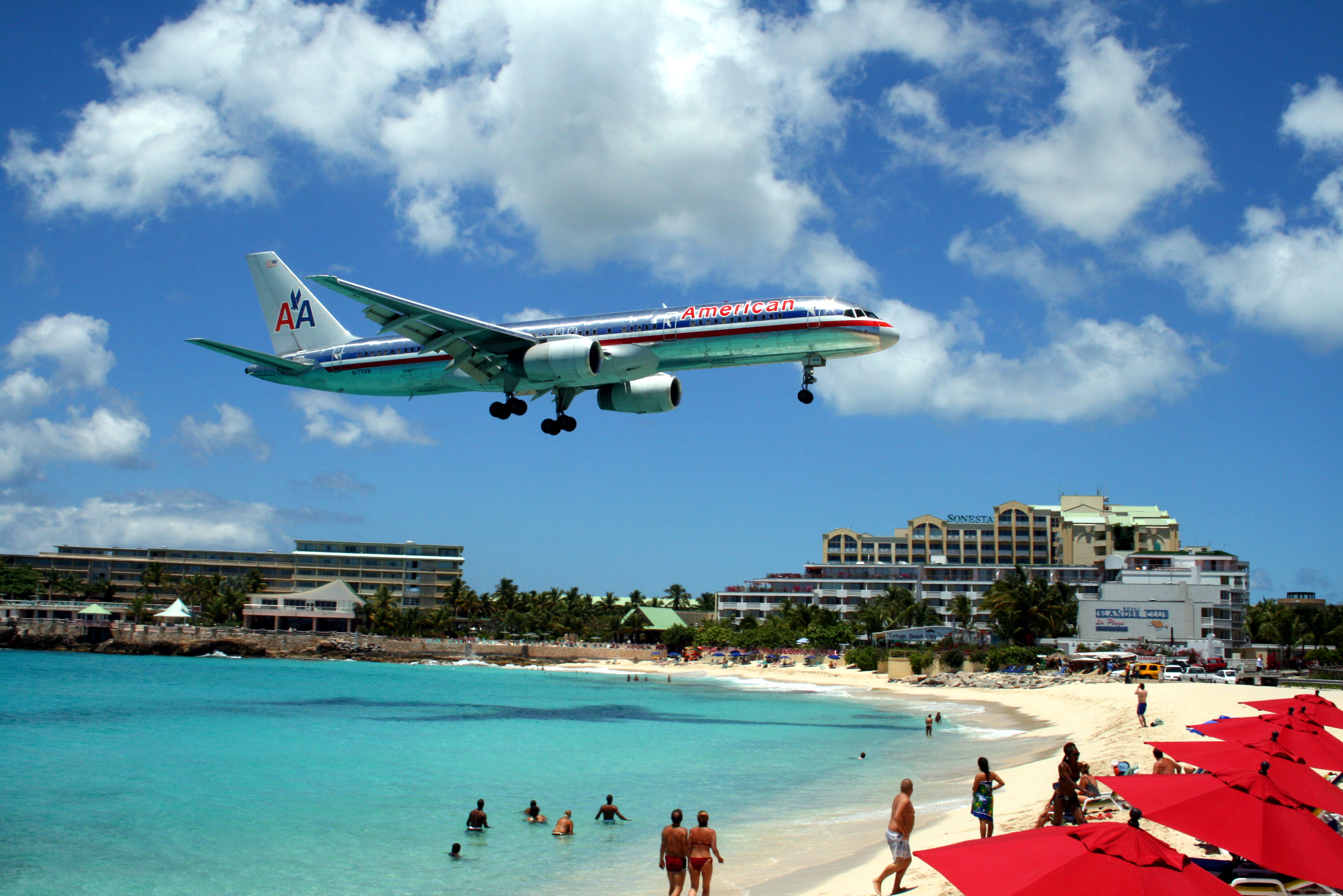 American Airlines Boeing 757 on final approach at St Maarten Juliana International Airport